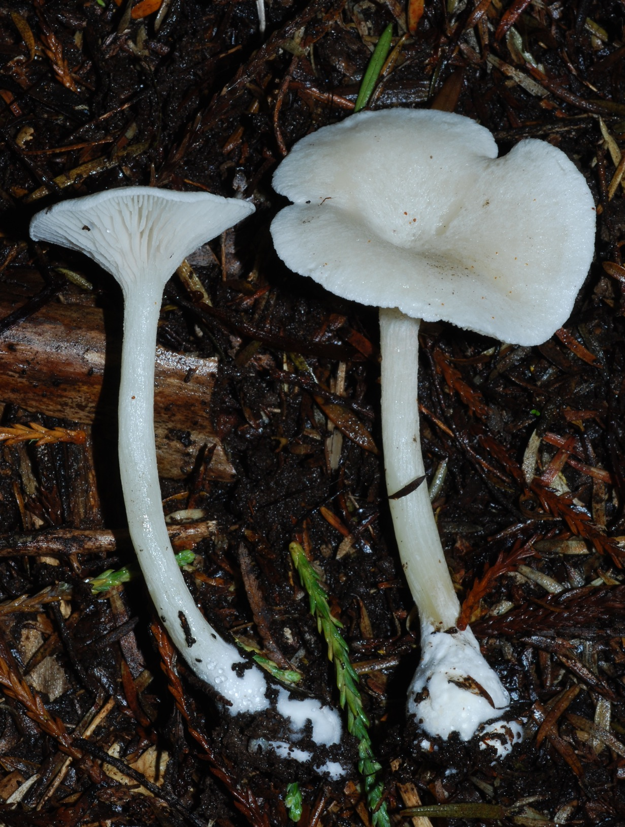 Entoloma peralbidum (E. Horak.) Location: Kaipara harbour, Auckland, New Zealand. Notes: On soil under Leptospermum scoparium and tree ferns!